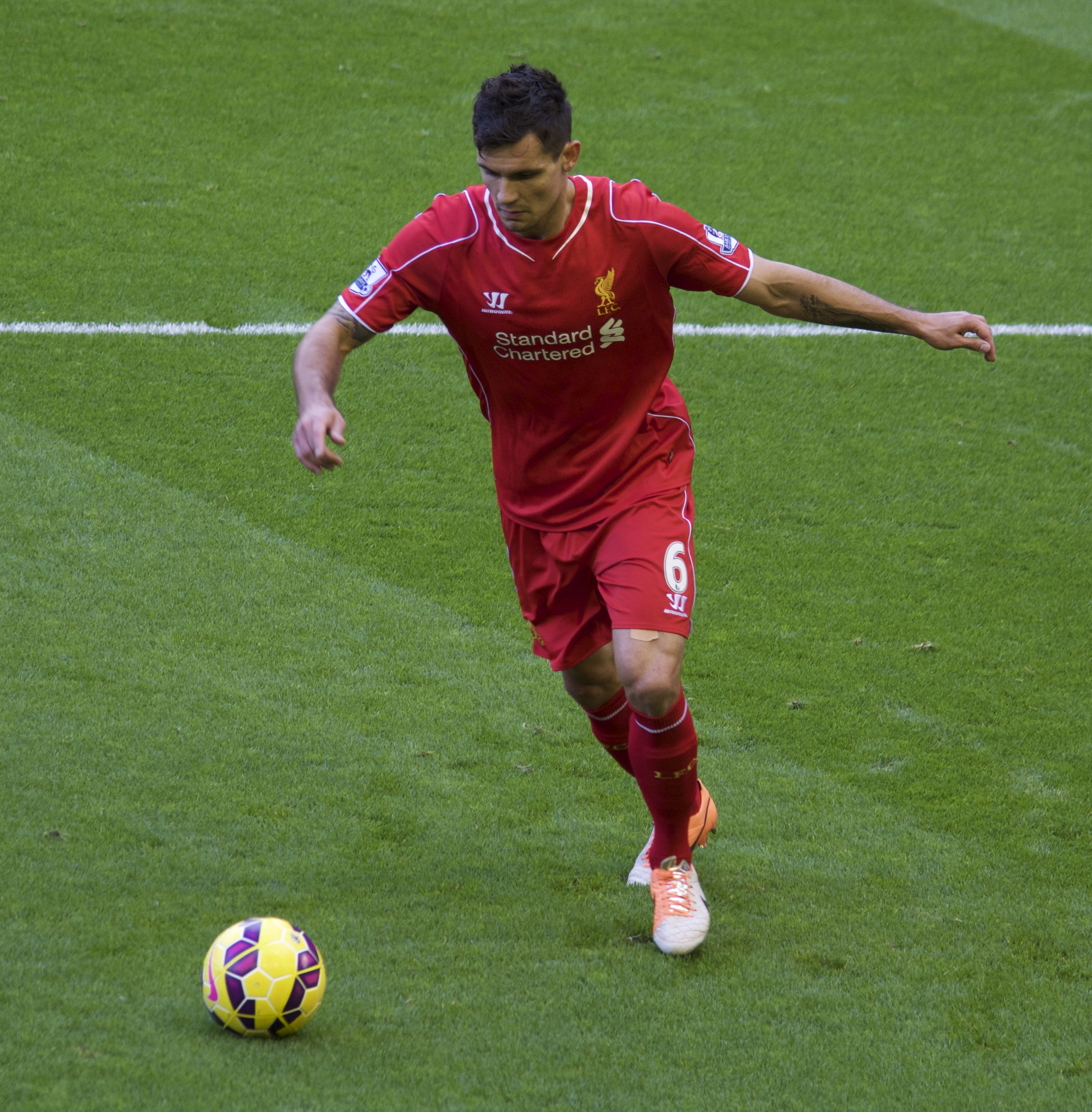 Liverpool v Hull City 25-10-14